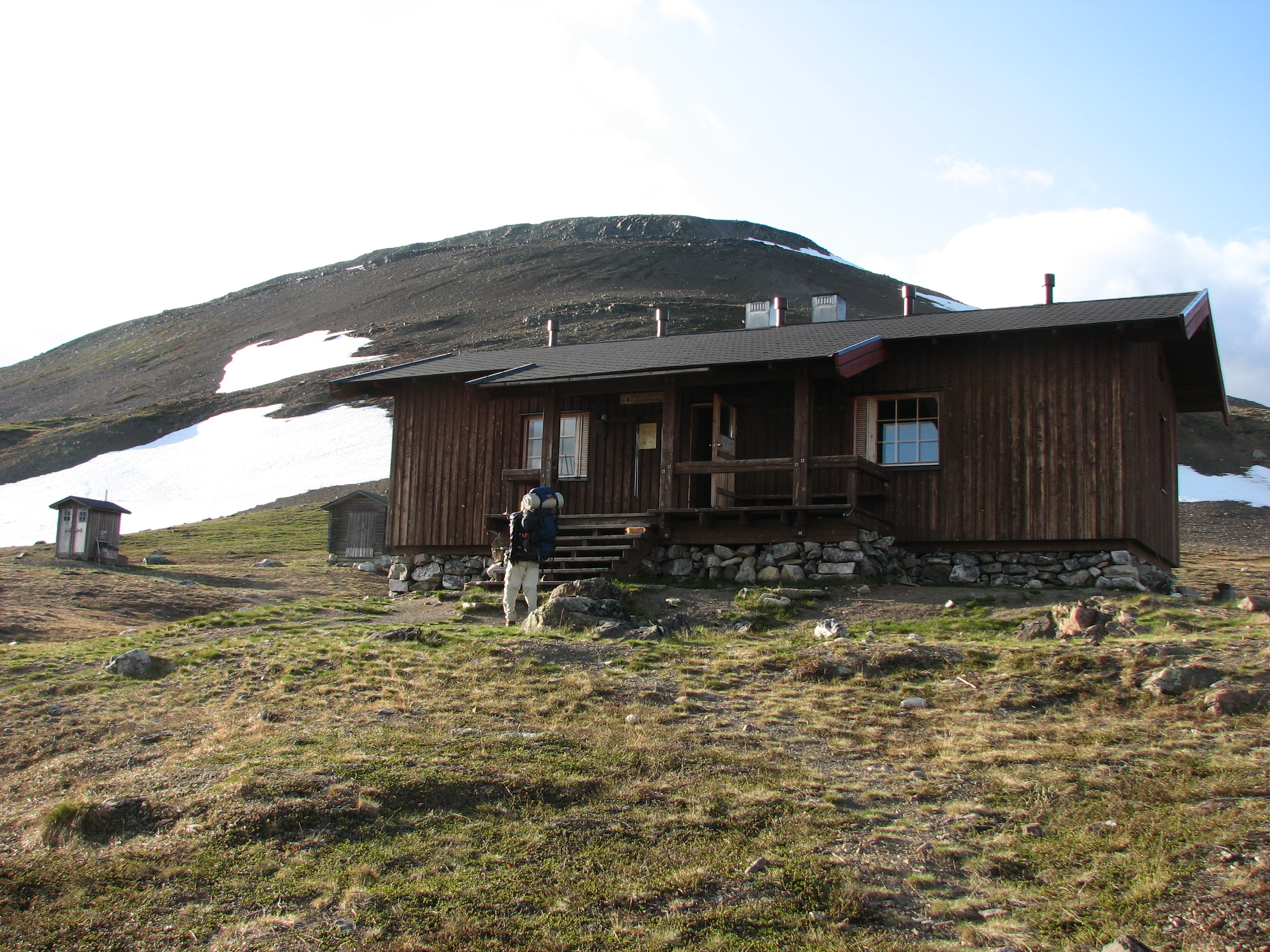 Kuonjarjoki Open Wilderness Hut at the right end of the building and Reservable Wilderness Hut at the left end of the building. The photo is taken in July 2008. Enontekiö, Finland